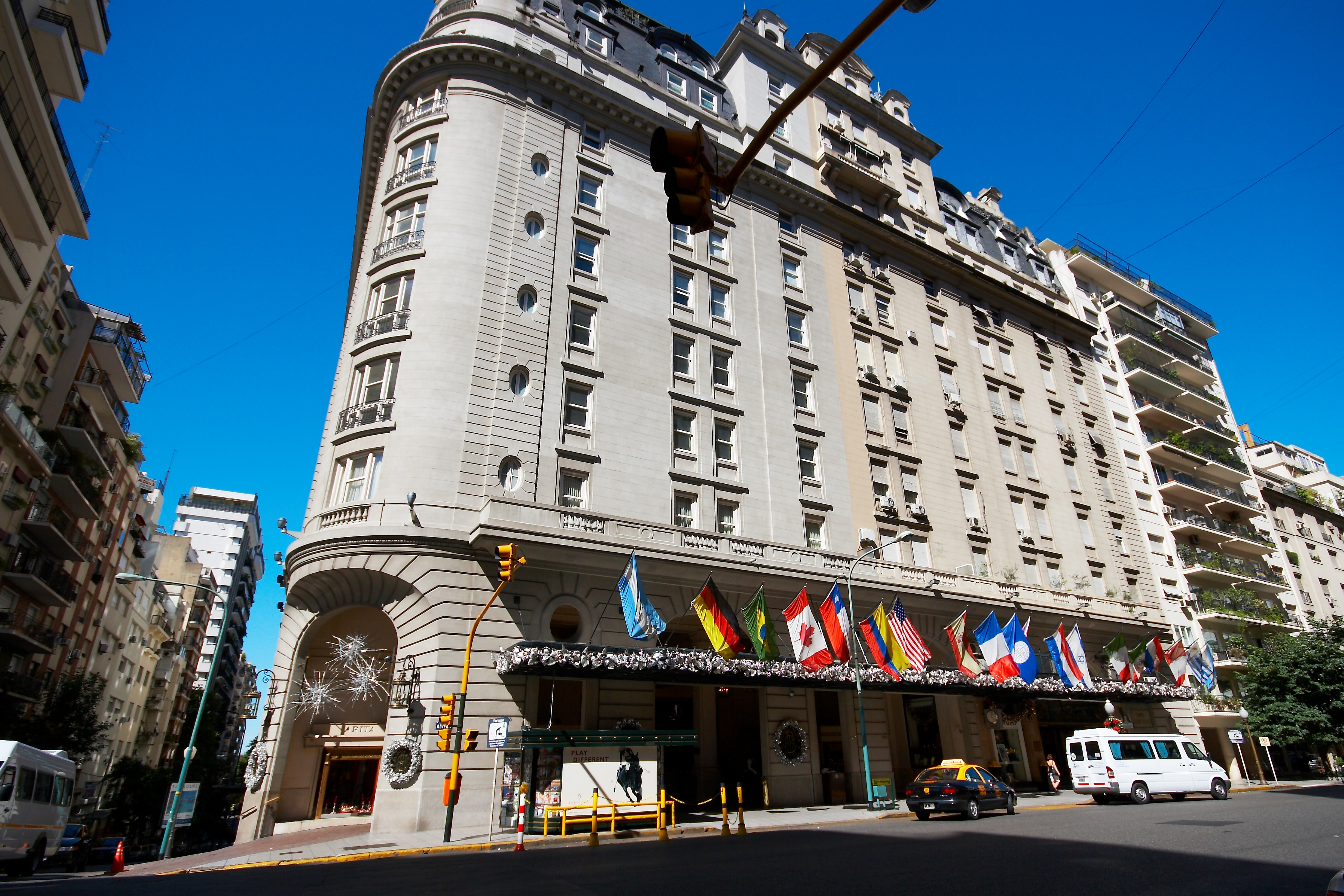 Alvear Palace Hotel. Alvear avenue and Ayacucho street, Buenos Aires, Argentina.